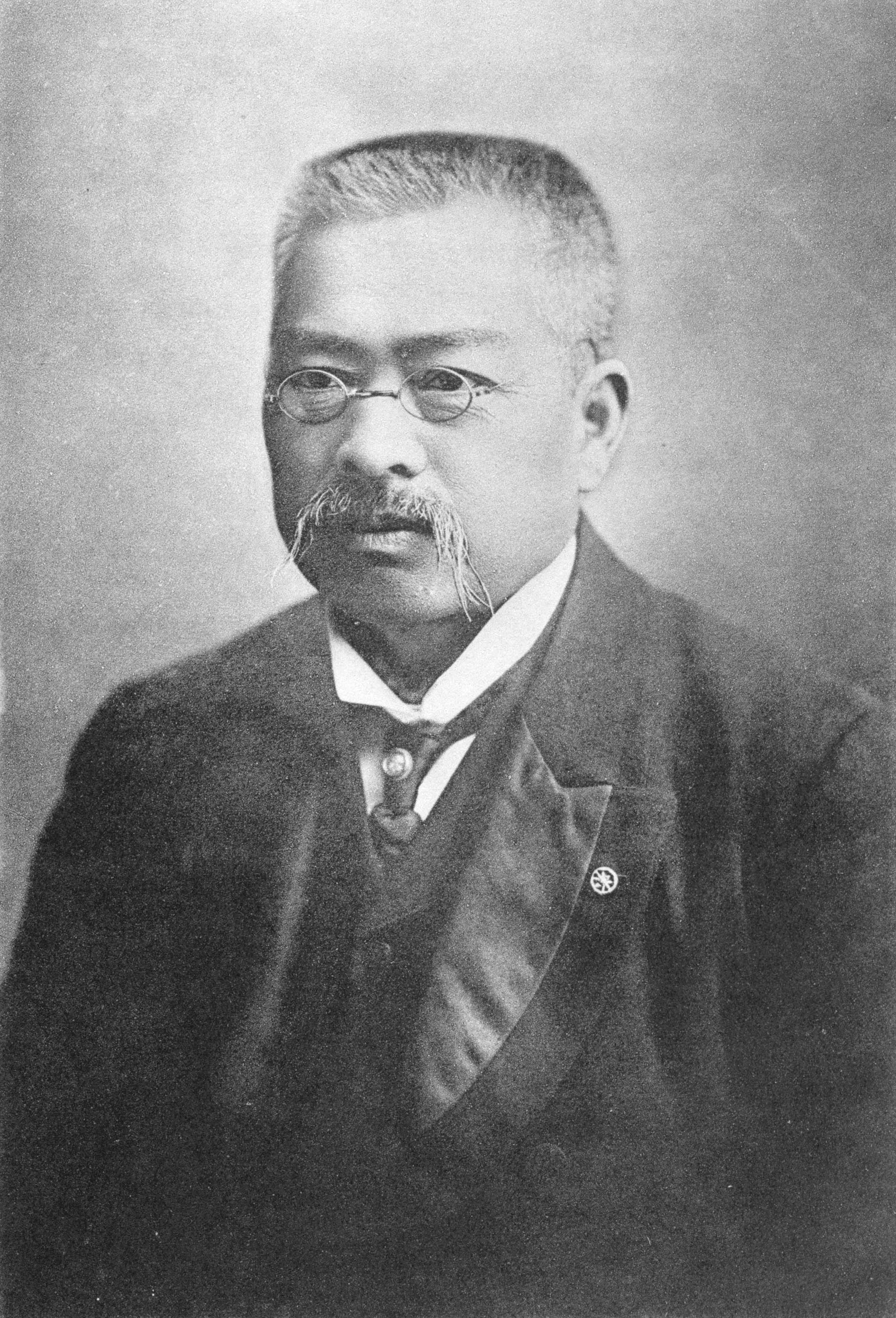 Mr. Takamine in 1909 (56 years old).